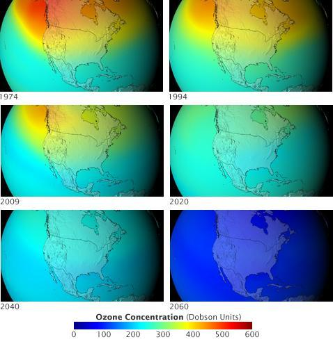 The Ozone Layer If CFCs Hadn't Been Banned Modified slightly to rearrange panels. From